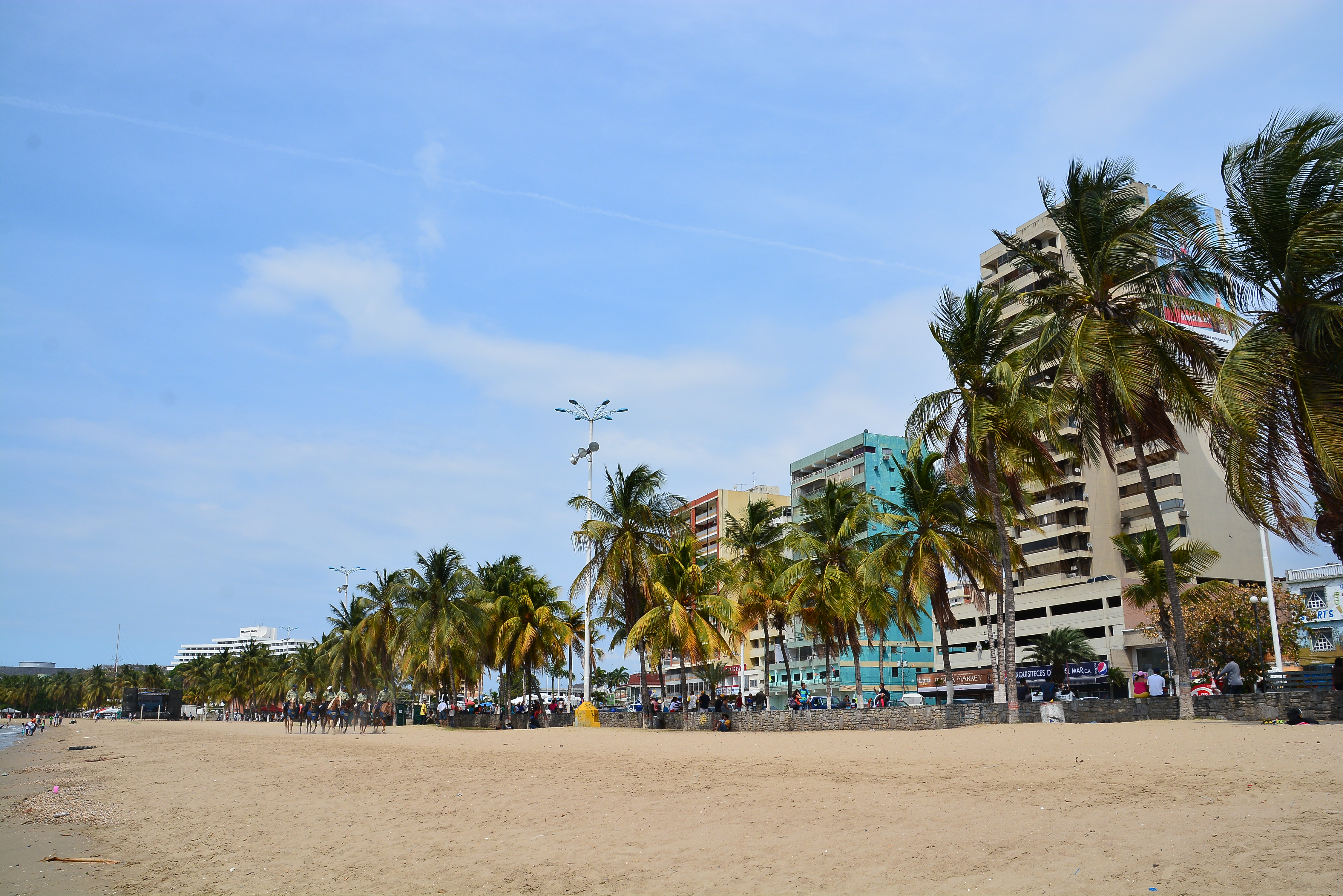 Playa Paseo Colón Puerto La Cruz Venezuela